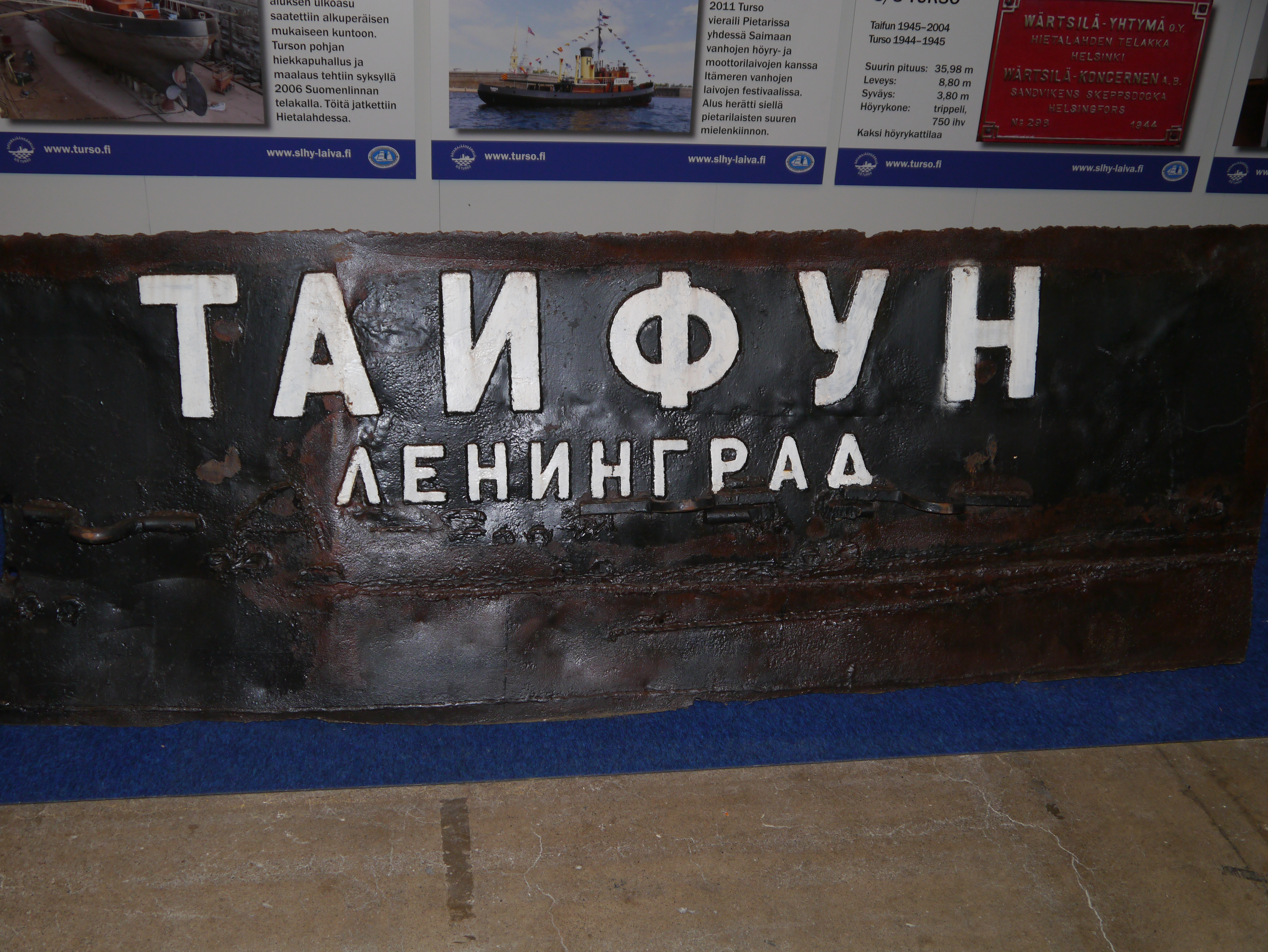 Russian signboard of former Finnish steam icebreaker and harbour tug ex S/S Turso. The ship was given to Soviet Union as war reparation in 1945 and renamed Taifun (Таифун). Its homeport was then Leningrad (Ленинград). The signboard was on show during Vene/Båt 2012 exhibition.